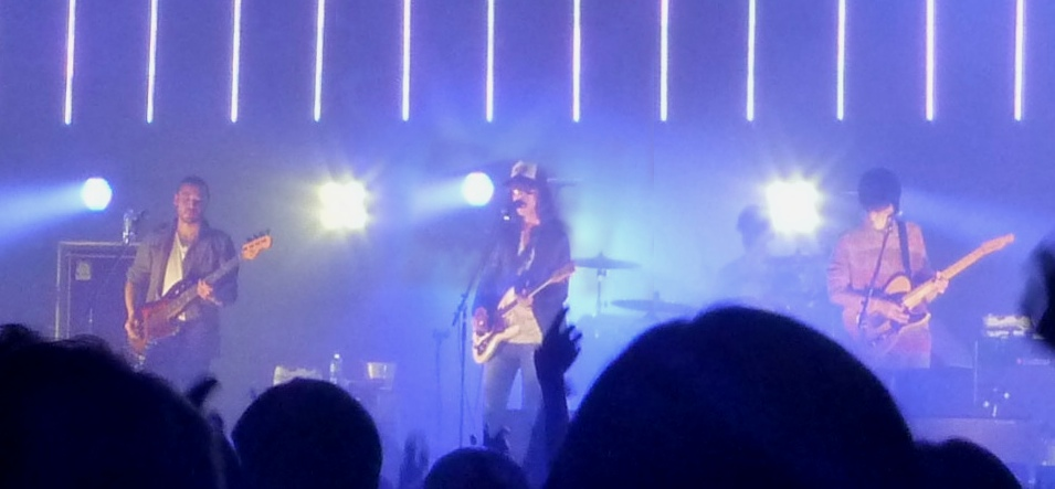 The Mirraz performing at Countdown Japan festival